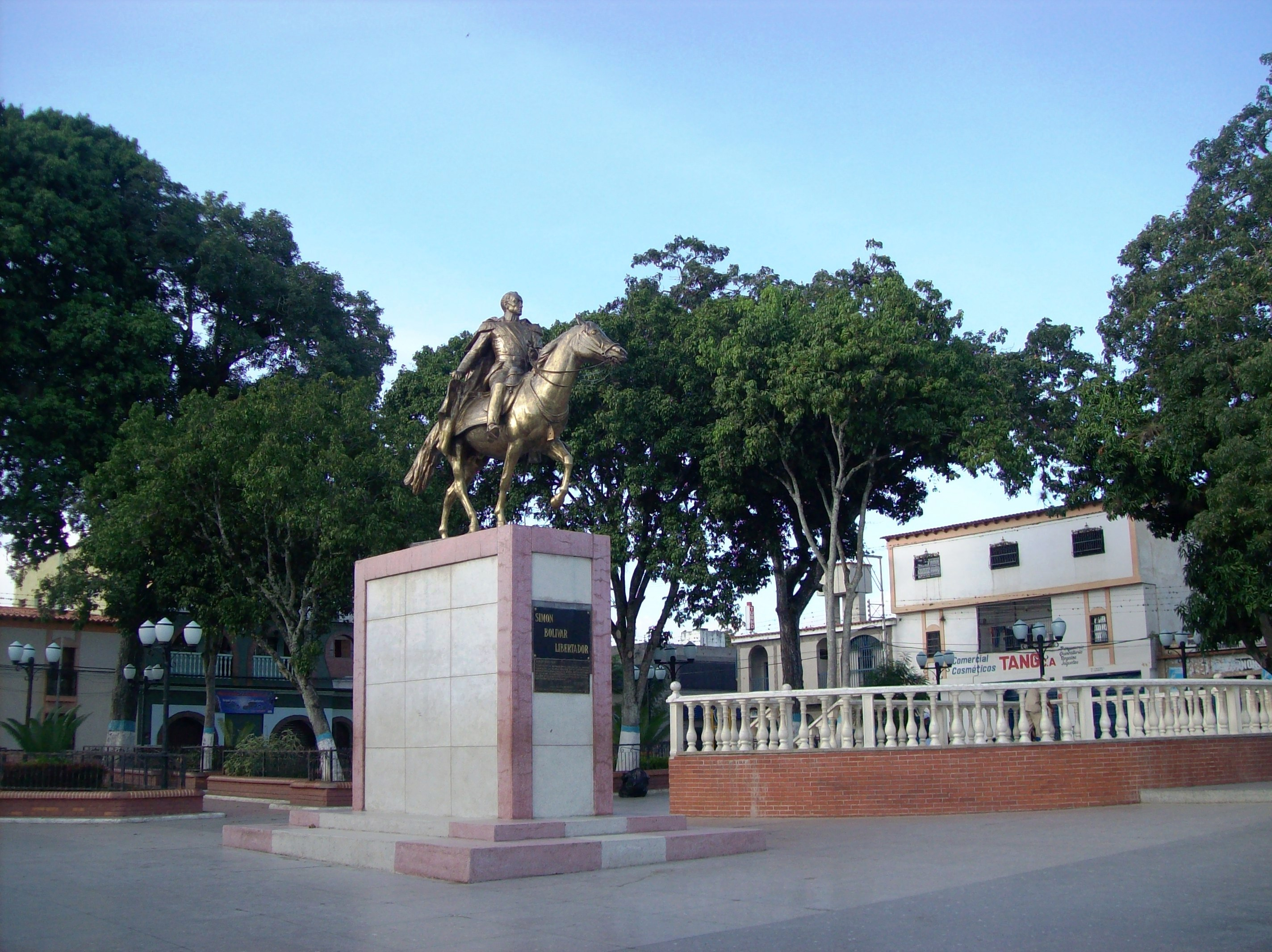 Bolívar Square of Nirgua, Capital of the Municipality Nirgua, Yaracuy state. Venezuela